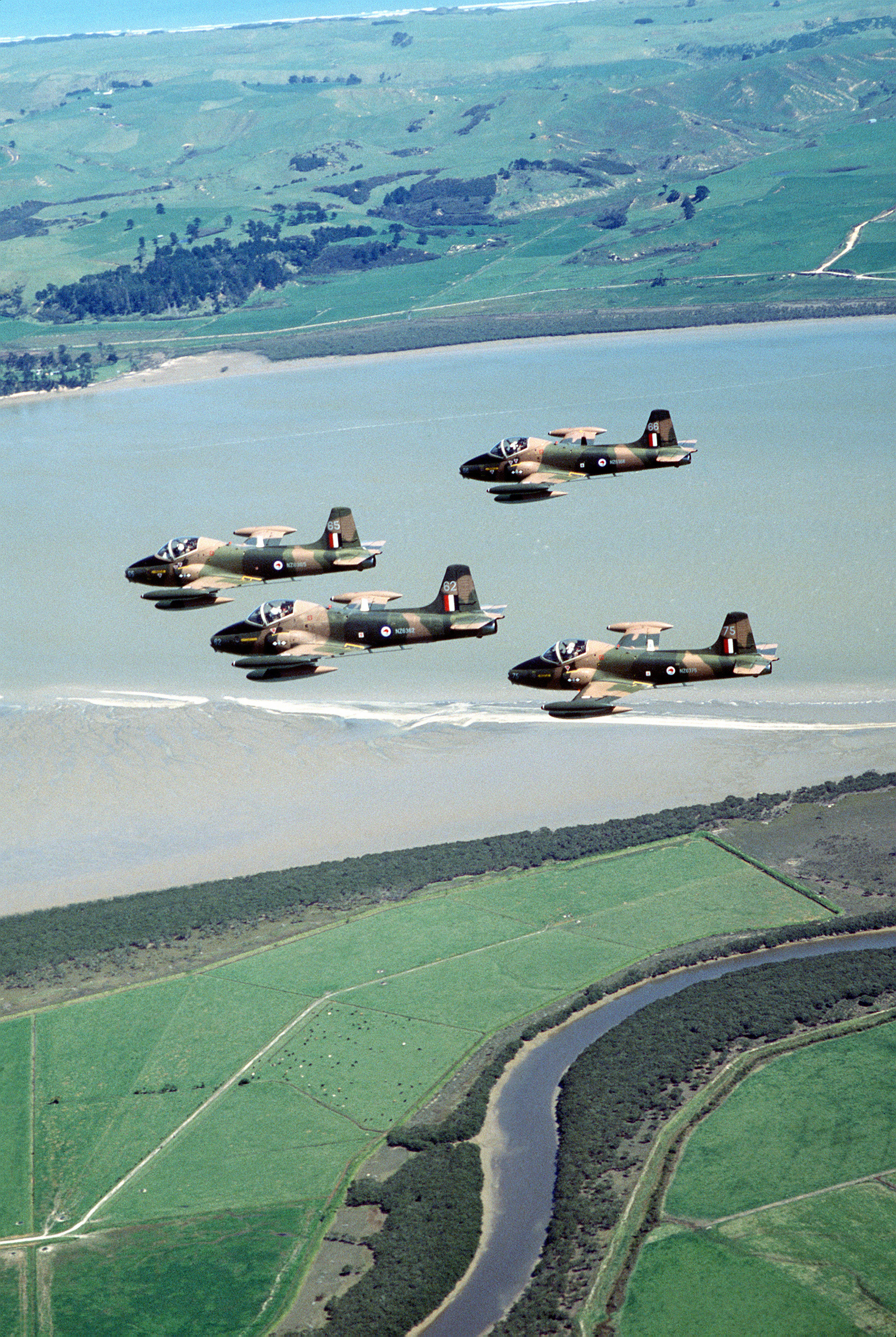 Four BAC Strikemaster Mk.88 aircraft of the Royal New Zealand Air Force in formation during the joint Australian, New Zealand and US (ANZUS) Exercise TRIAD '84.